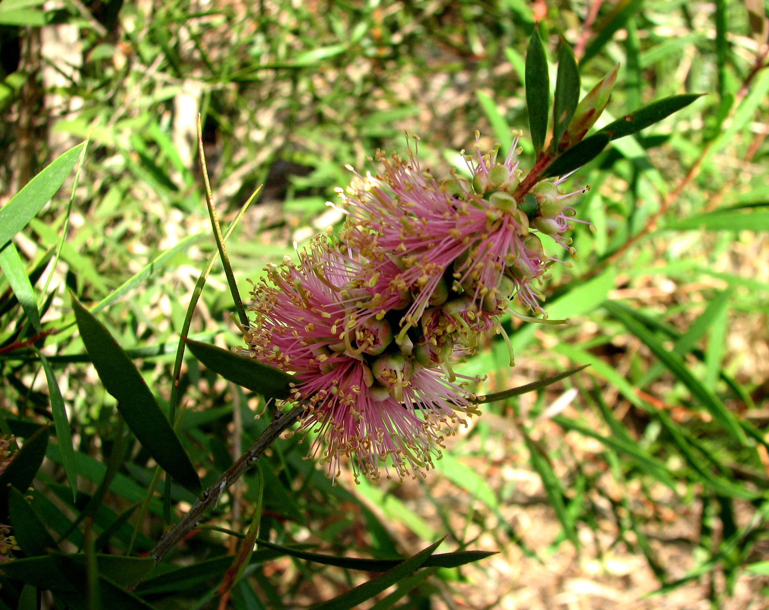 Callistemon wimmerensis (cultivated, labelled) Royal Botanic Gardens Melbourne, Australia